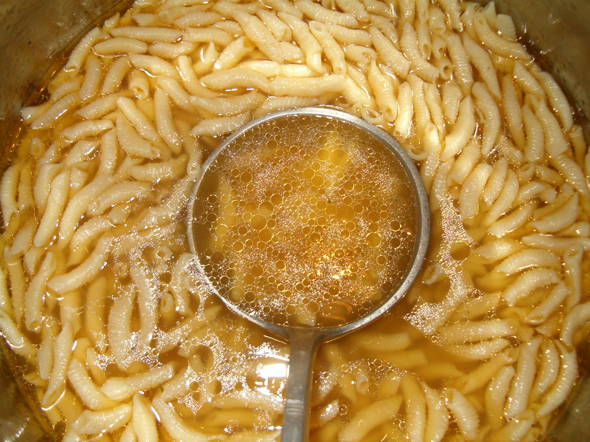 "shell(-shaped) pasta", a typical Hungarian noodle for chicken soups